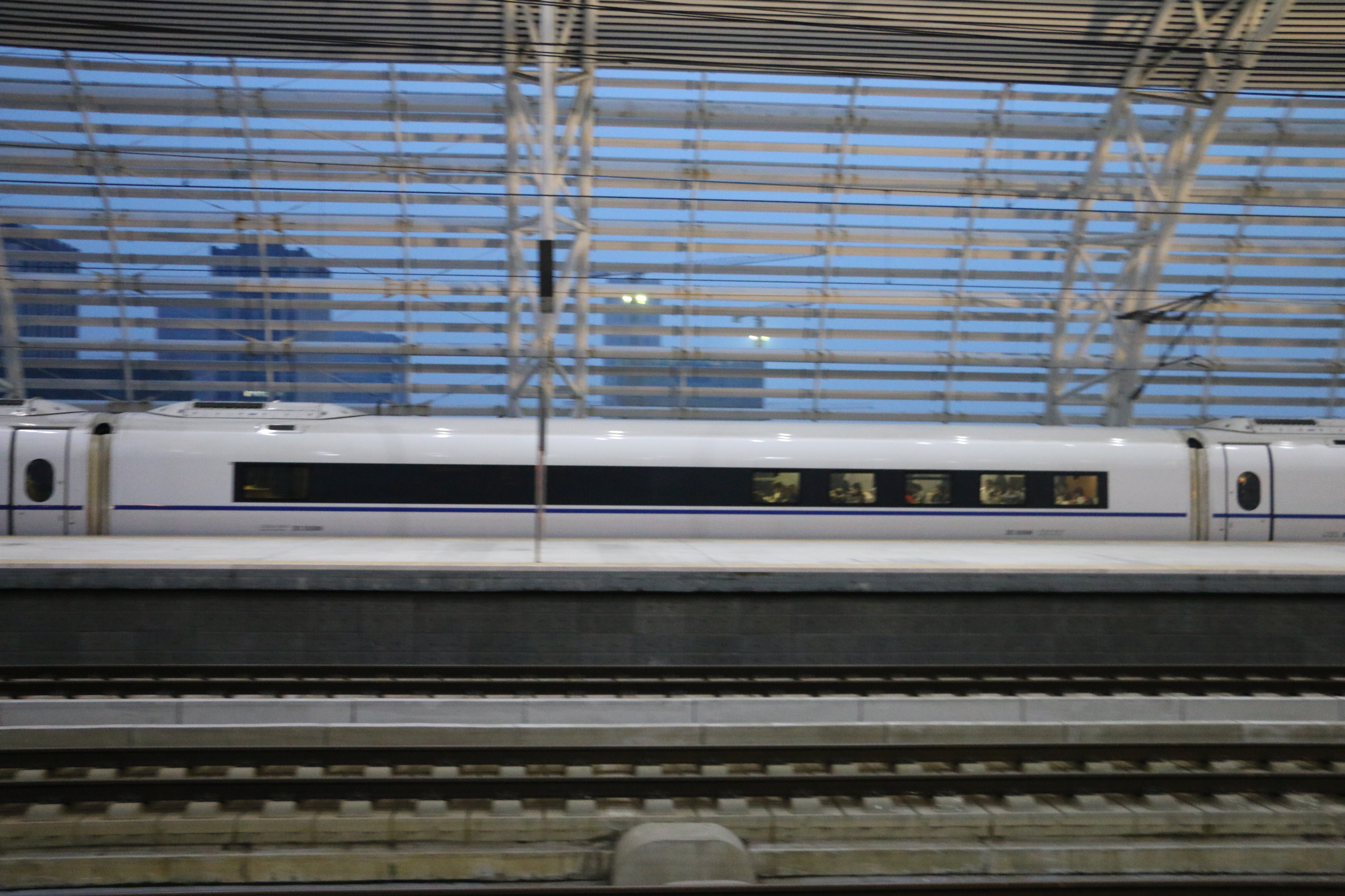 201604 Buffet car of CRH380BL